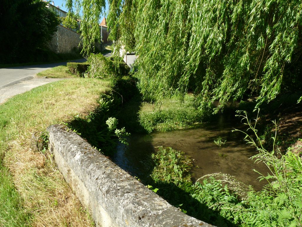 river Charraud near Torsac, southwest of France